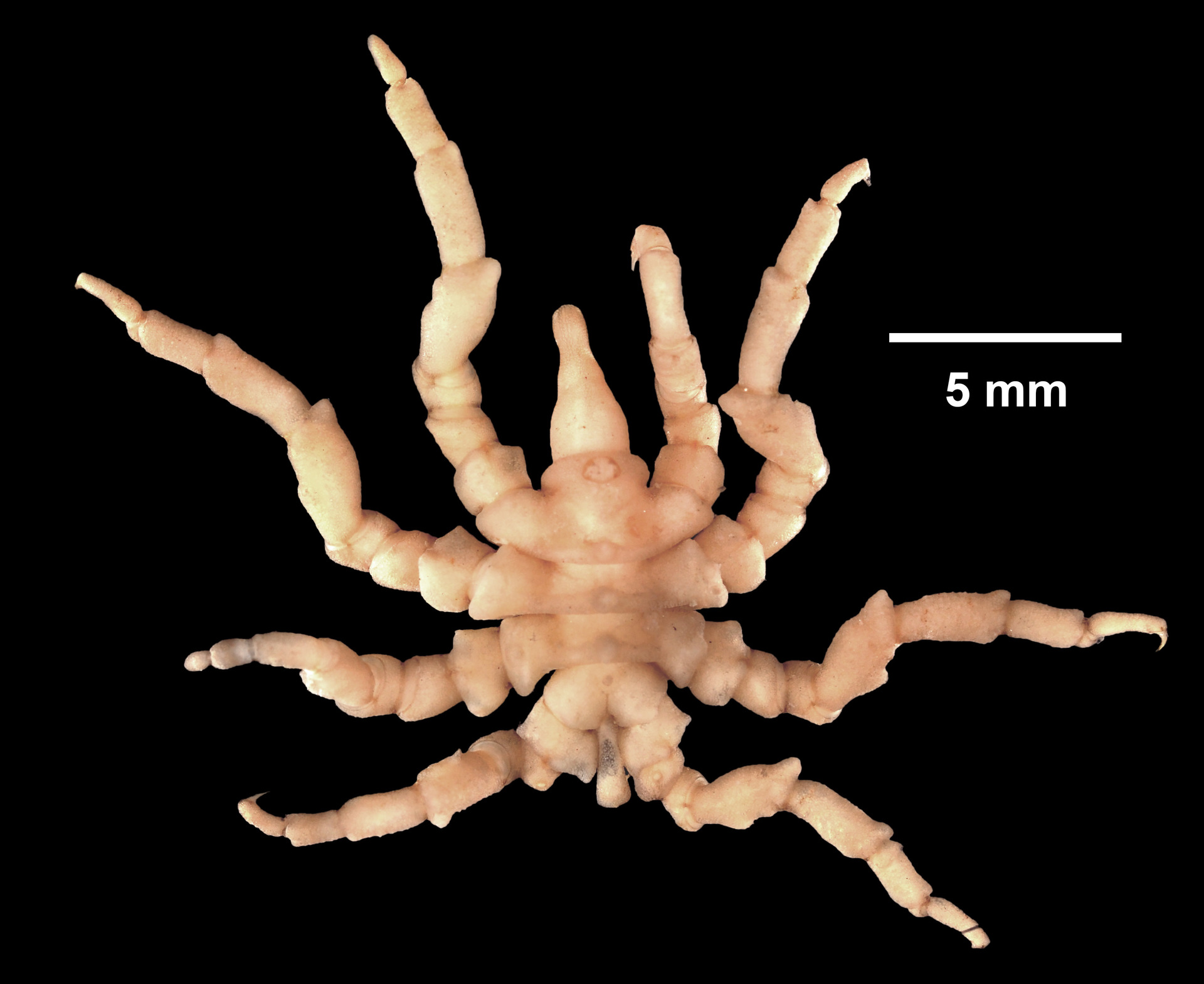 PRESERVED_SPECIMEN; ; ; 70% alc.; Det. by: N. Pascoe; GM Image; Gray Museum; IZ number 30249; lot count 1; original catalog number GM 989; 1974-10-22T00:00:00Z